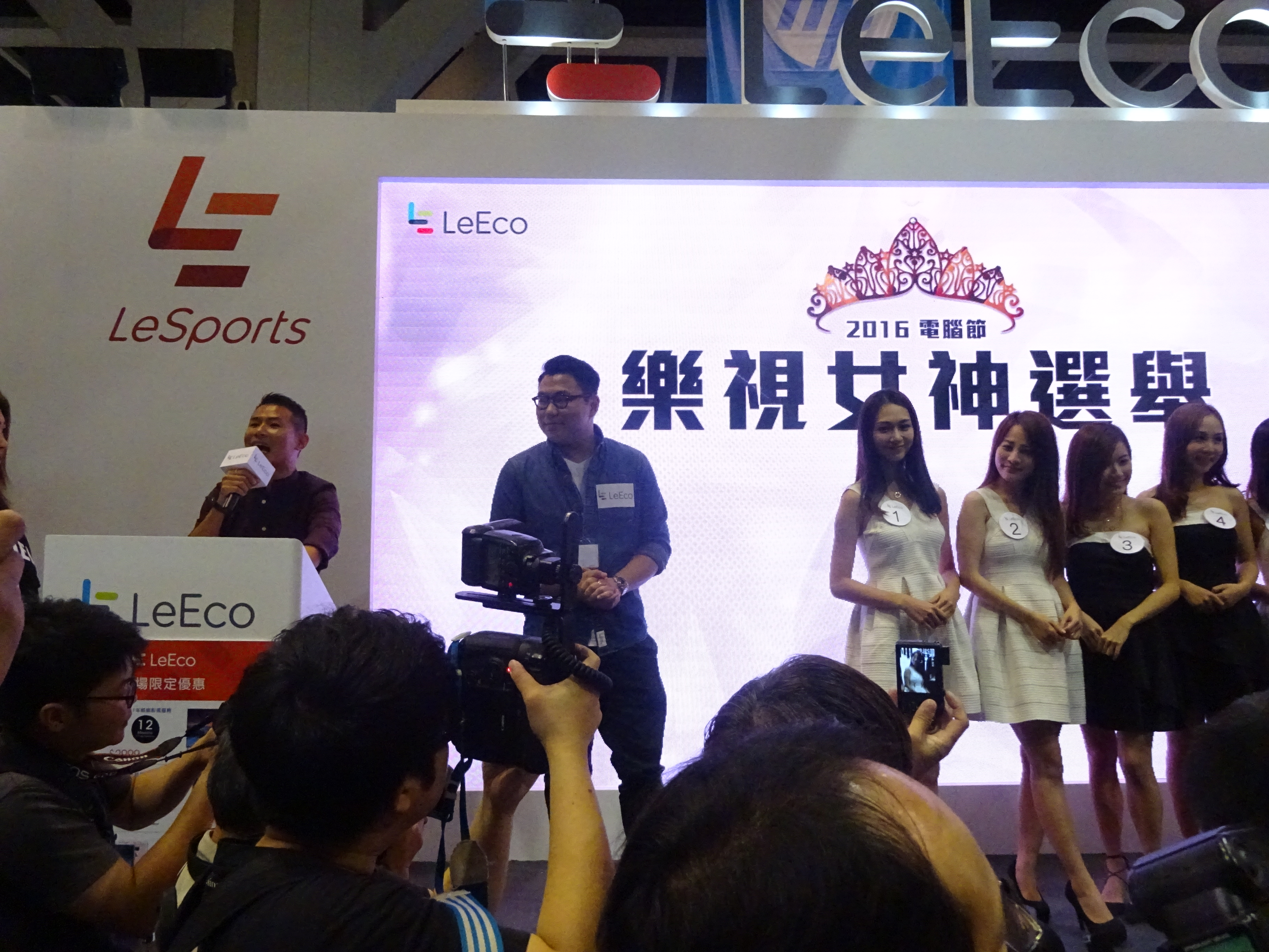 HKCEC HKCCF 香港電腦通訊節 exhibition show stage LeEco n visitors in Aug 2016